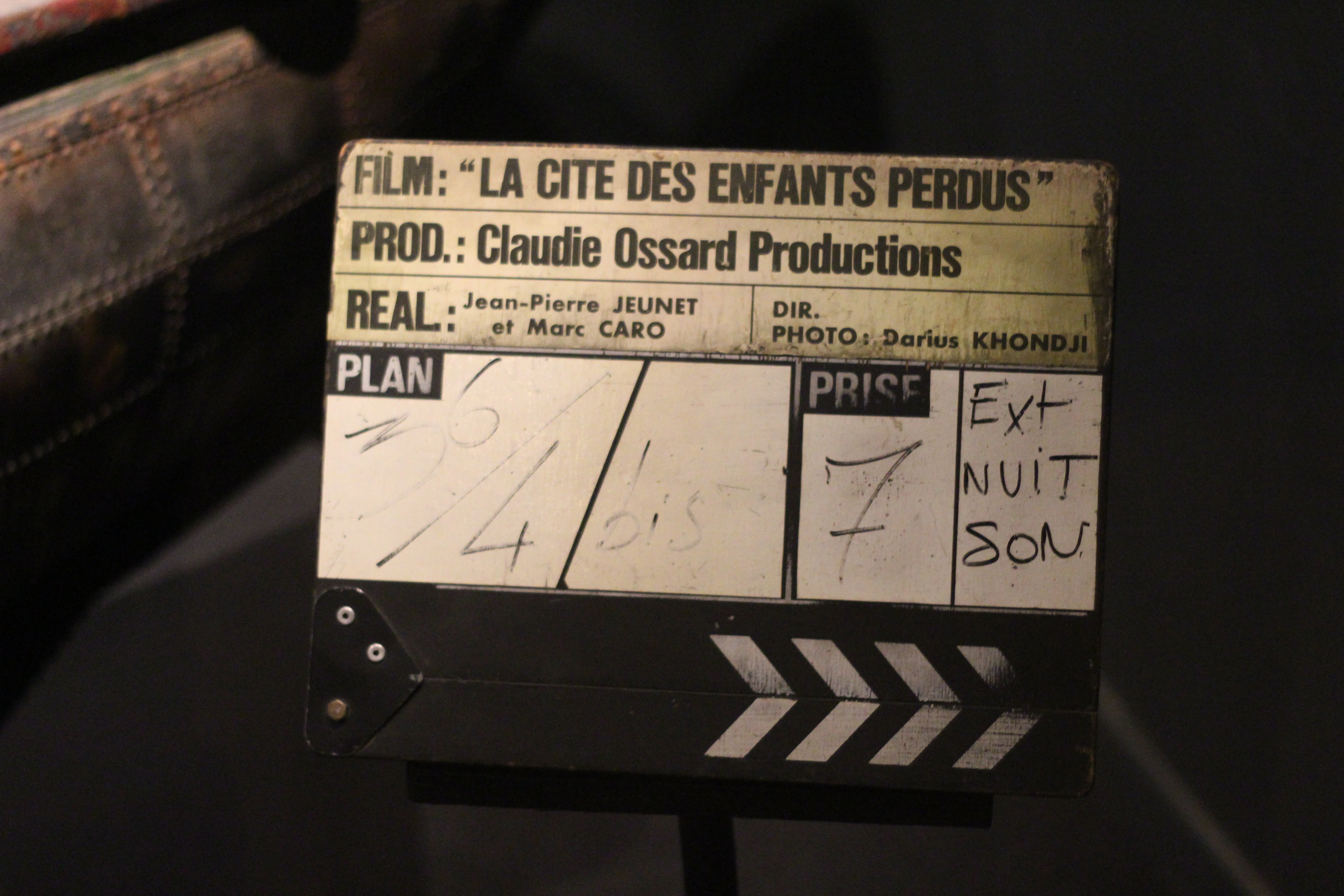 Clap du film La Cité des enfants perdus. Exposition "Caro/Jeunet" au musée Minature et Cinéma en 2018-2019.